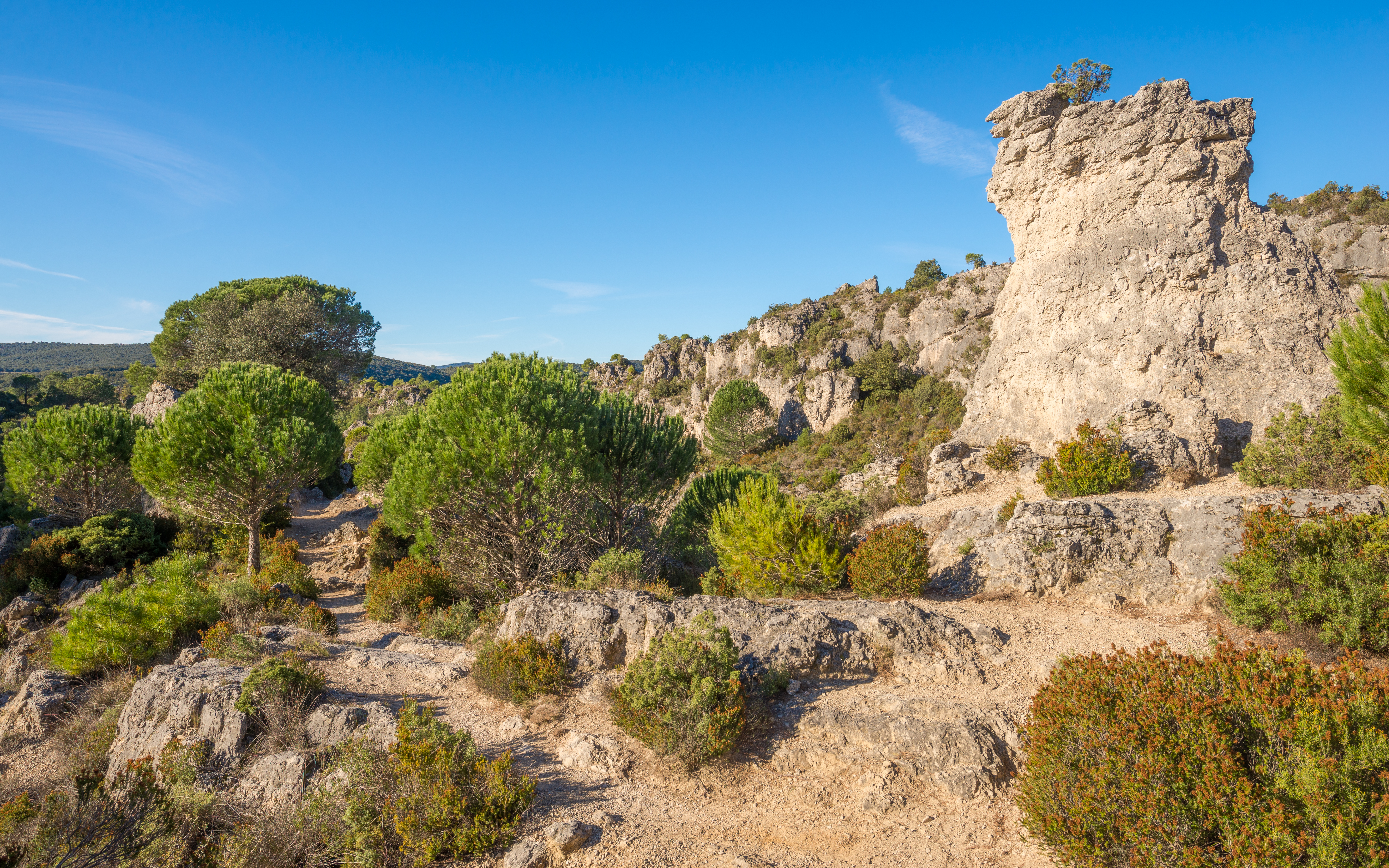 The "Cirque de Mourèze" is a steephead of whitch the chaotic appearance was made by the erosion of dolomite rocks. Mourèze, Hérault, France.